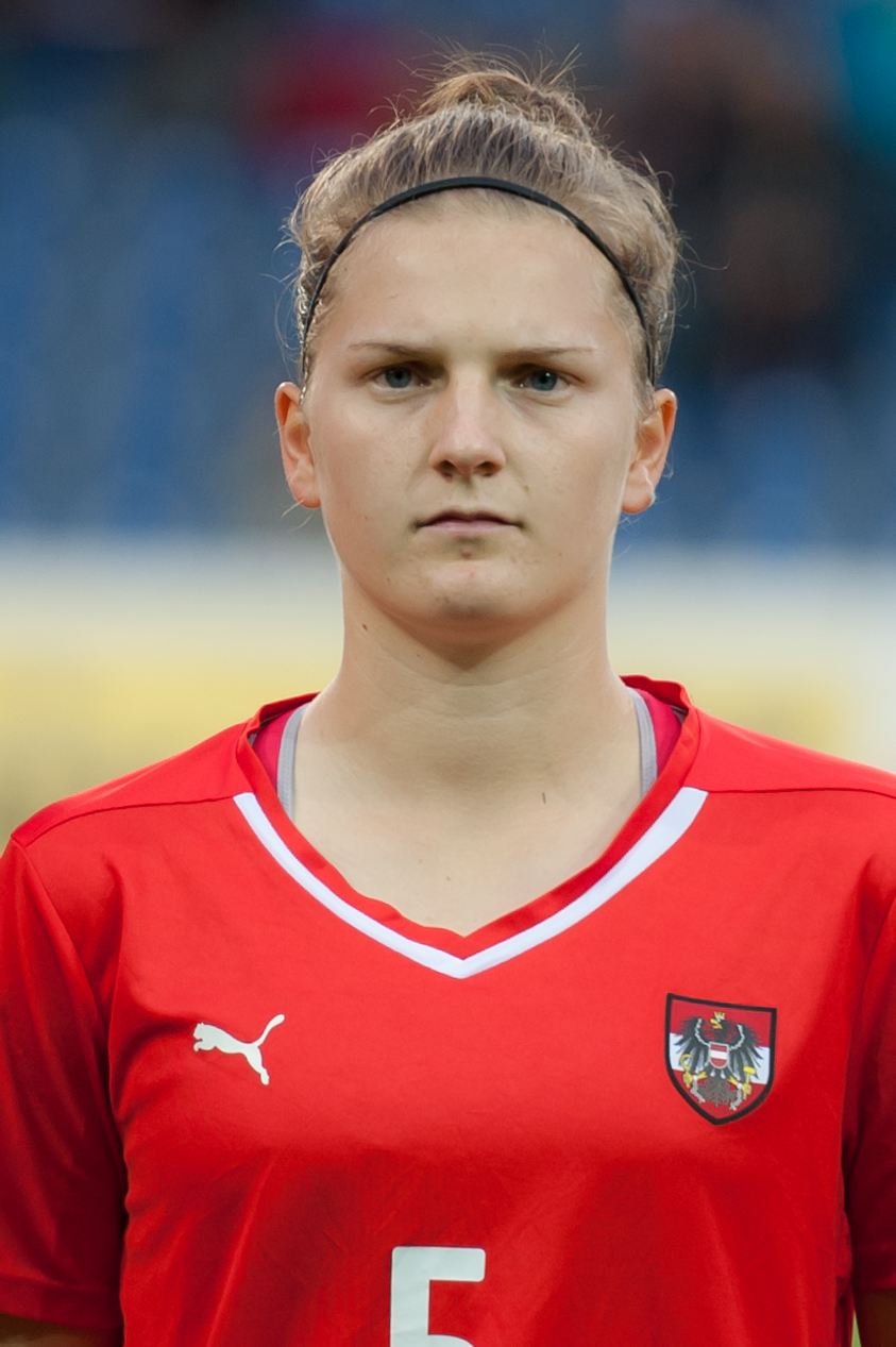 Women's Euro Qualification Austria vs. Wales, 2015-09-22, St. Pölten, Lower Austria